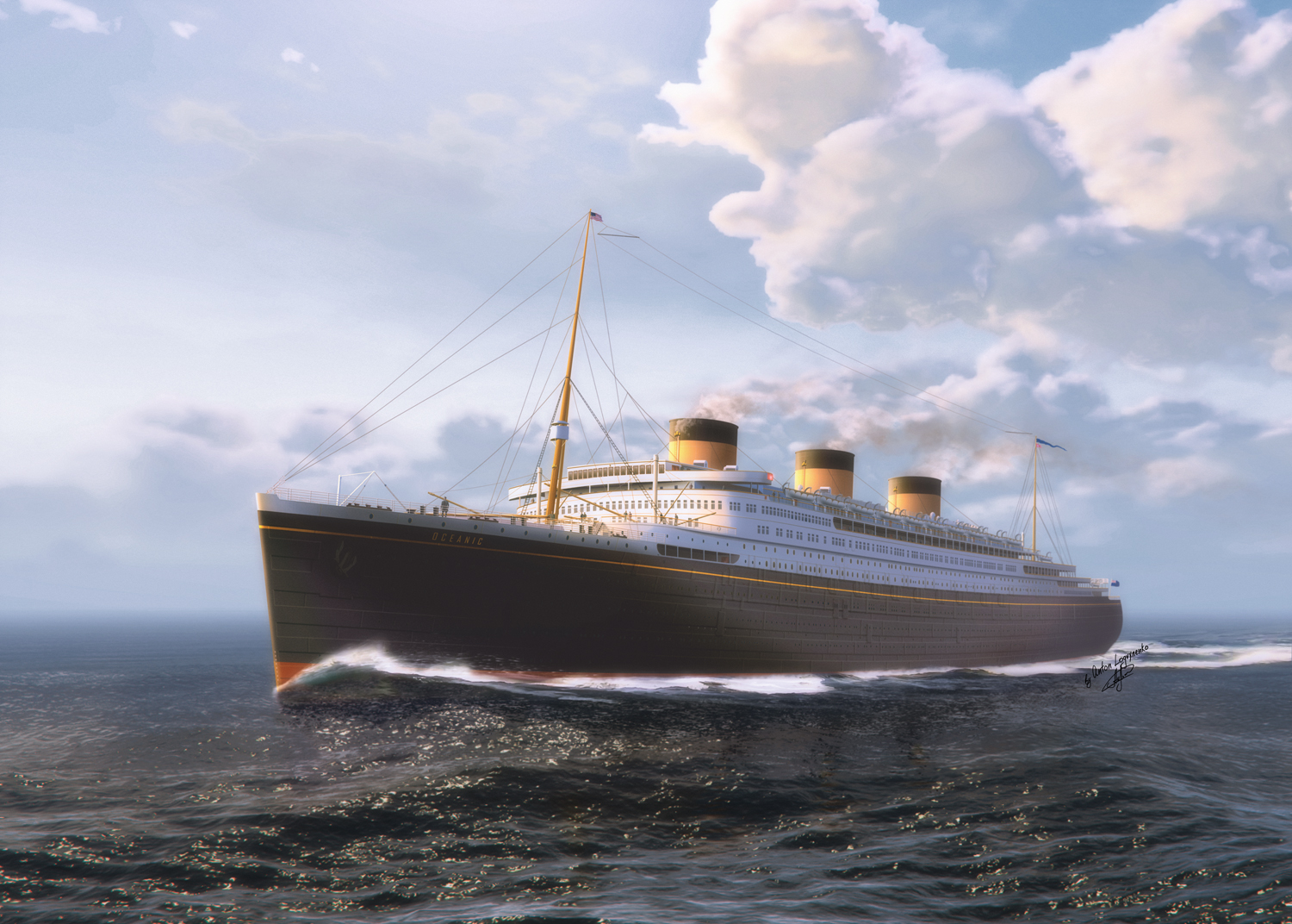 My tenth digital drawing: "The ocean liner that never existed" showing the unfinished ocean liner RMMV Oceanic (III)